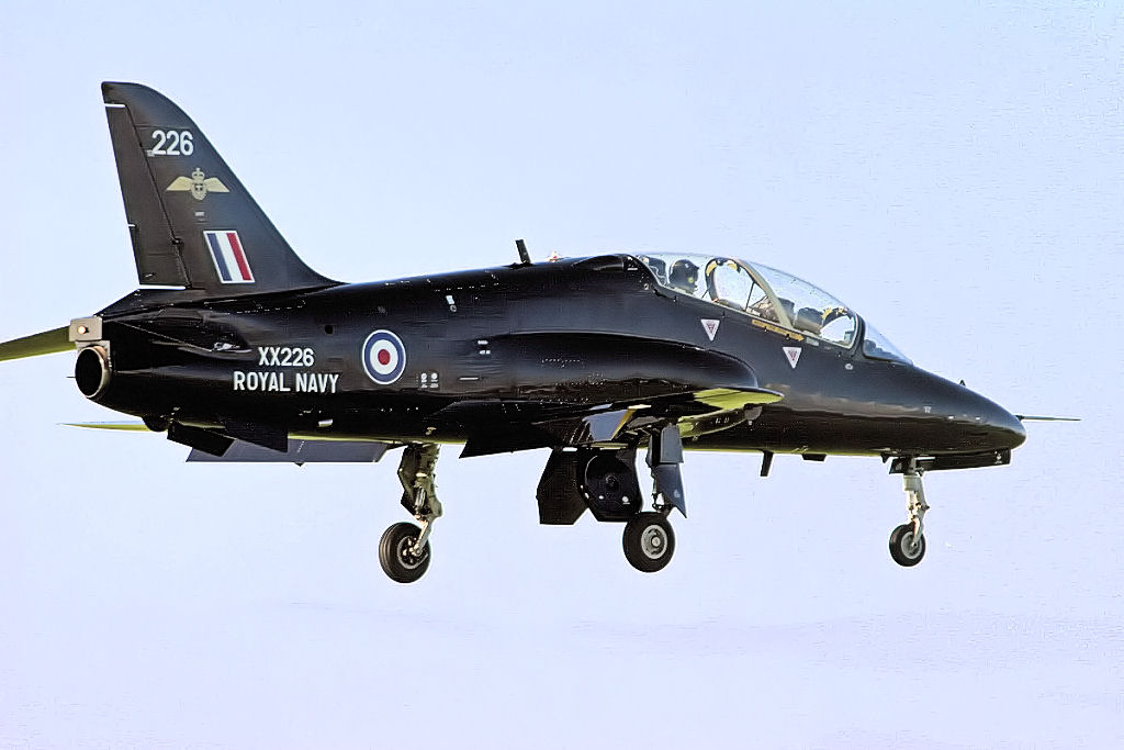 Hawk - RNAS Culdrose 2006